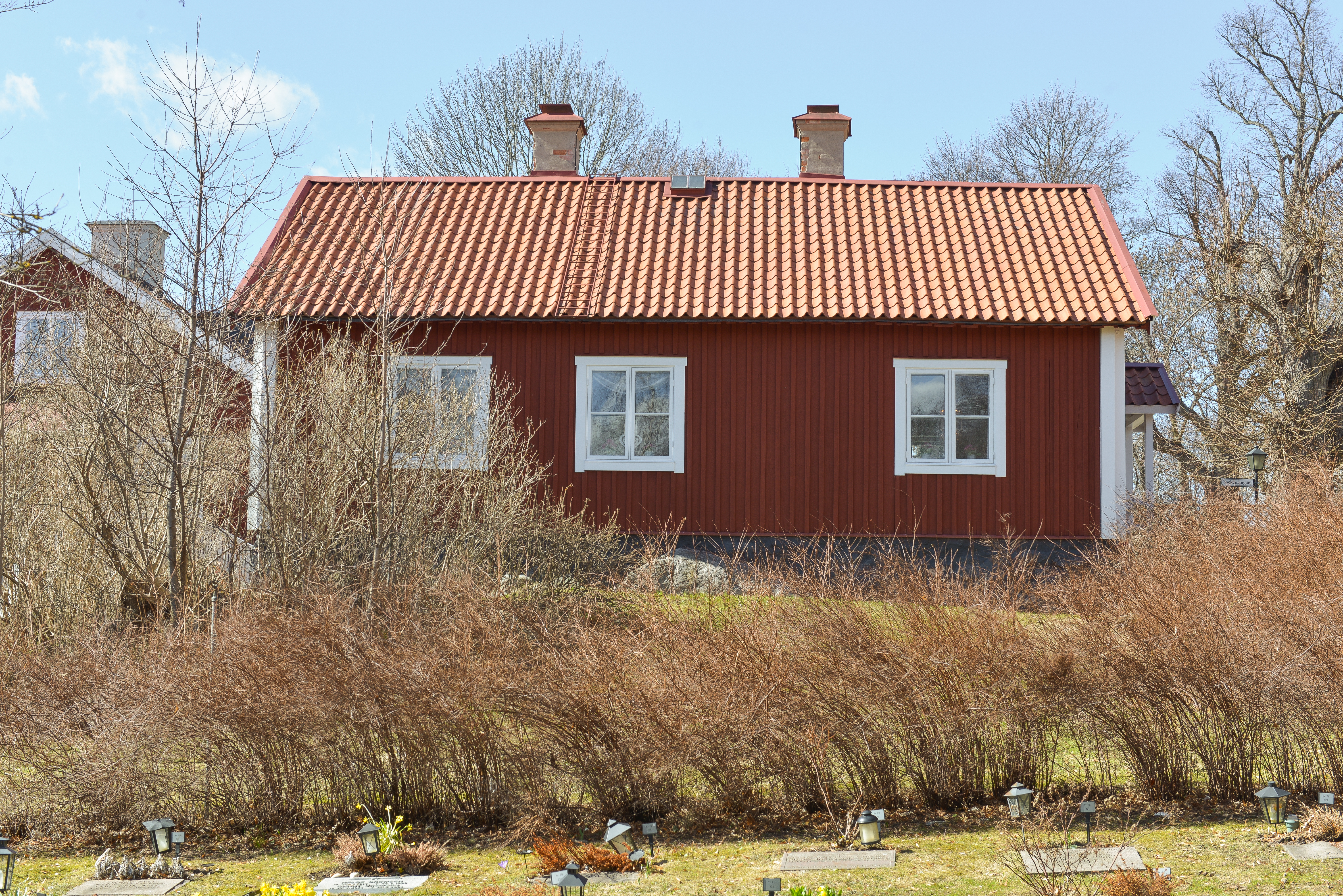 Bromma sockenstuga.